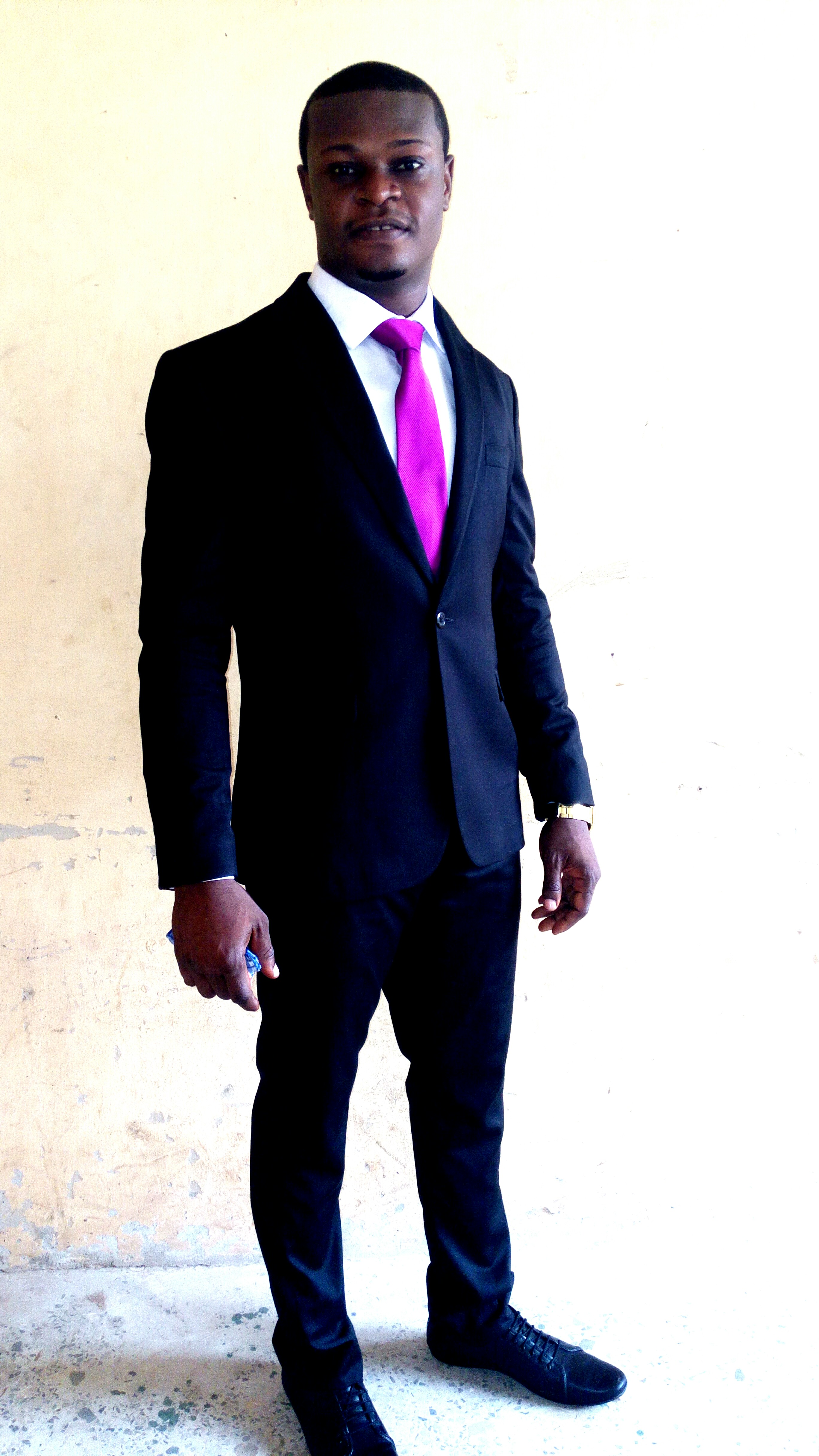 Photo of Anthony Ikpeka